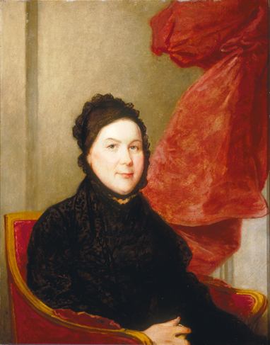 Catharine Littlefield Greene Miller (1755-1814), wife of Nathanael Greene and Phineas Miller, and supporter of Eli Whitney.